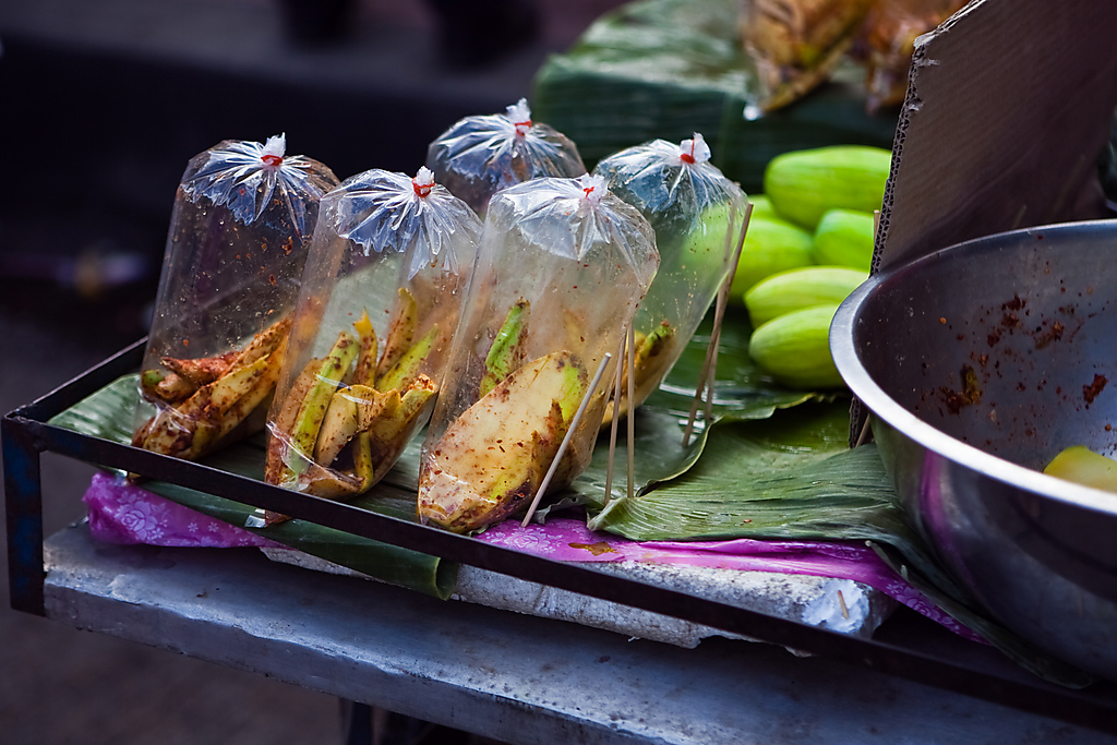 Mamuang nam pla wan (Thai script: มะม่วงน้ำปลาหวาน): tart, unripe mango with a sweet, salty and spicy dipping sauce made from shallots, fish sauce, dried chillies, dried shrimp, and palm sugar (nam pla wan lit. means "sweet fish sauce"). This is normally eaten as a snack on its own. At a street vendor in Bangkok.